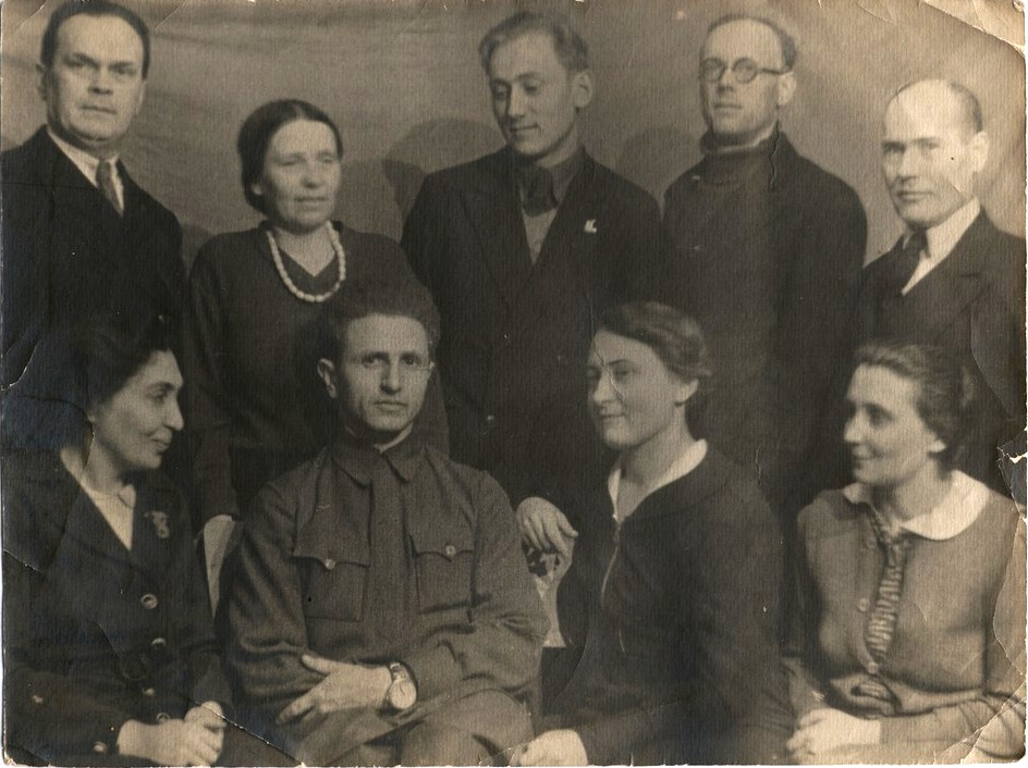 Bragilevsky THTU